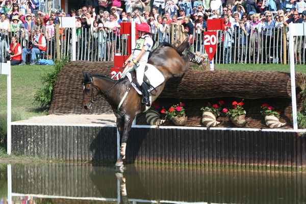 Annabel Wigley (NZL) tackles the water